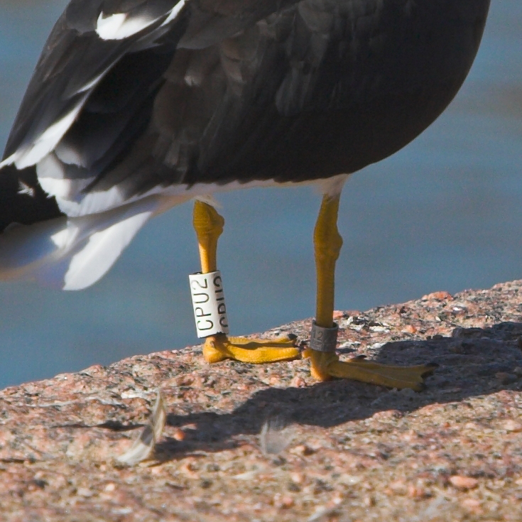 Legs of a ringed lesser black-backed gull (Larus fuscus fuscus) at the Tokoinranta park in Kallio, Helsinki, Finland on 23rd April 2006. The bird has been ringed as a nestling in Helsinki on 14th July 1999.